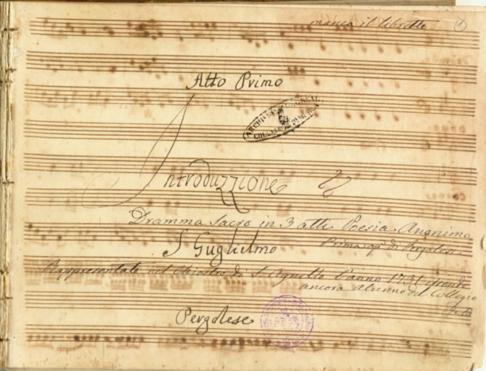 First page of the only extant manuscript score also containing the comic elements, of the 'sacred drama' by Giovanni Battista Pergolesi, Li prodigi della divina grazia nella conversione e morte di san Guglielmo duca d'Aquitania. The manuscript is kept at the library of the Conservatorio di musica San Pietro a Majella - Naples - NA - [press-mark] 30.4.18-19, and has been digitized at the site OPAC SBN - Catalogo del Servizio Bibliotecario Nazionale.